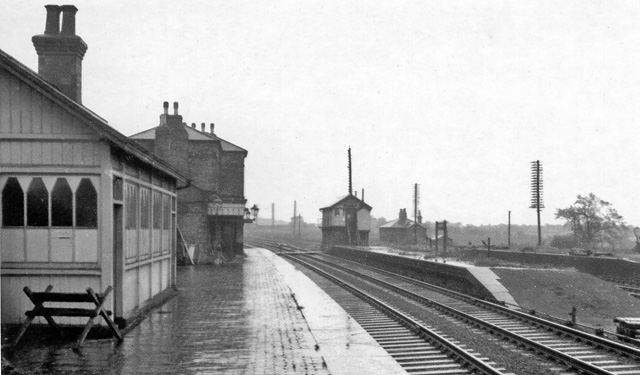 Bawtry Station. View northward (in pouring rain), towards Doncaster etc.; ex-GNR East Coast Main Line, King's Cross - Doncaster etc.. This station was closed to passengers on 6/10/58, to goods 30/4/71. By the signalbox, the Goods branch to Misson turned off to the right, but was closed on 7/12/64